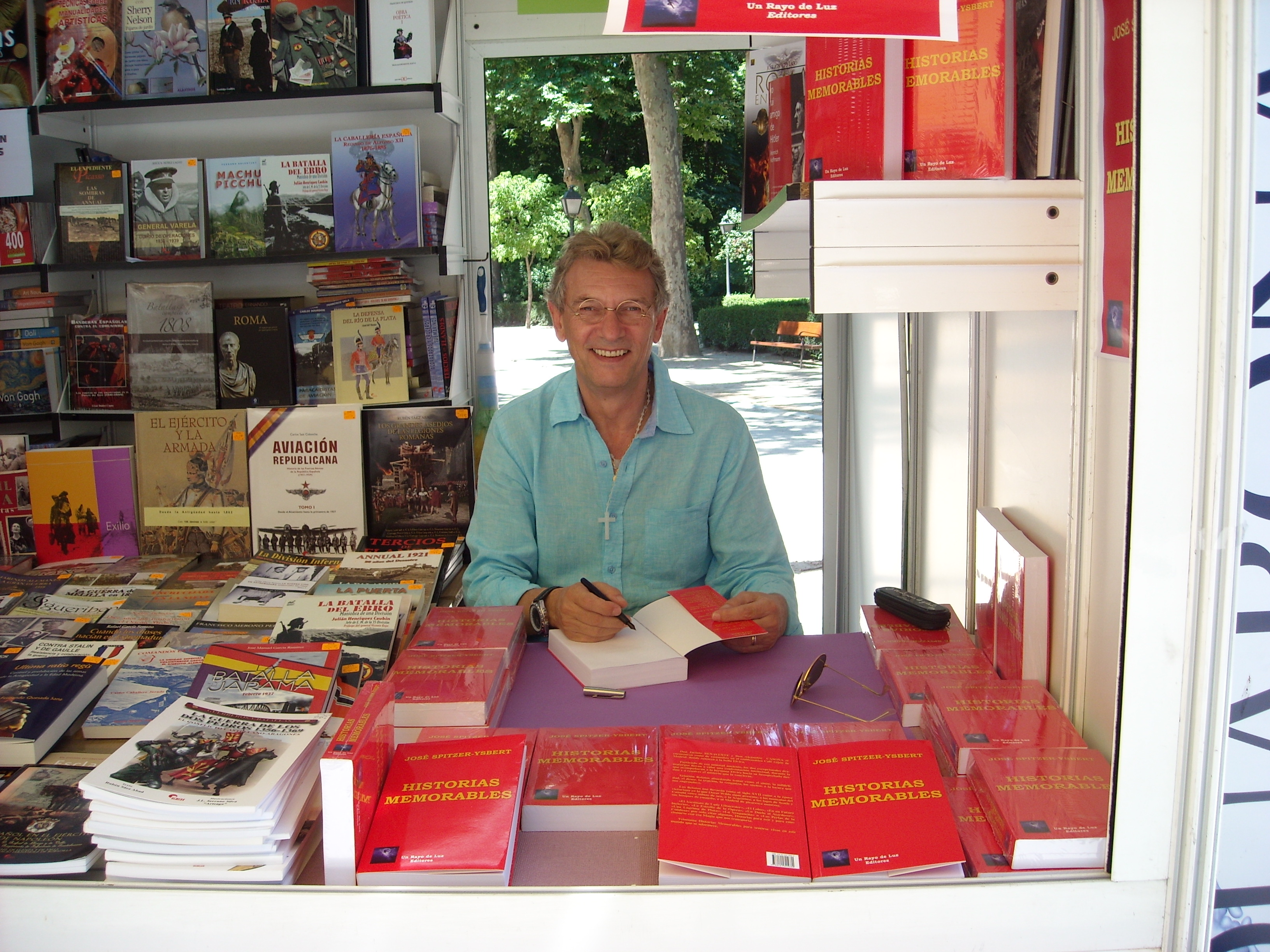 José S. ISBERT signing books